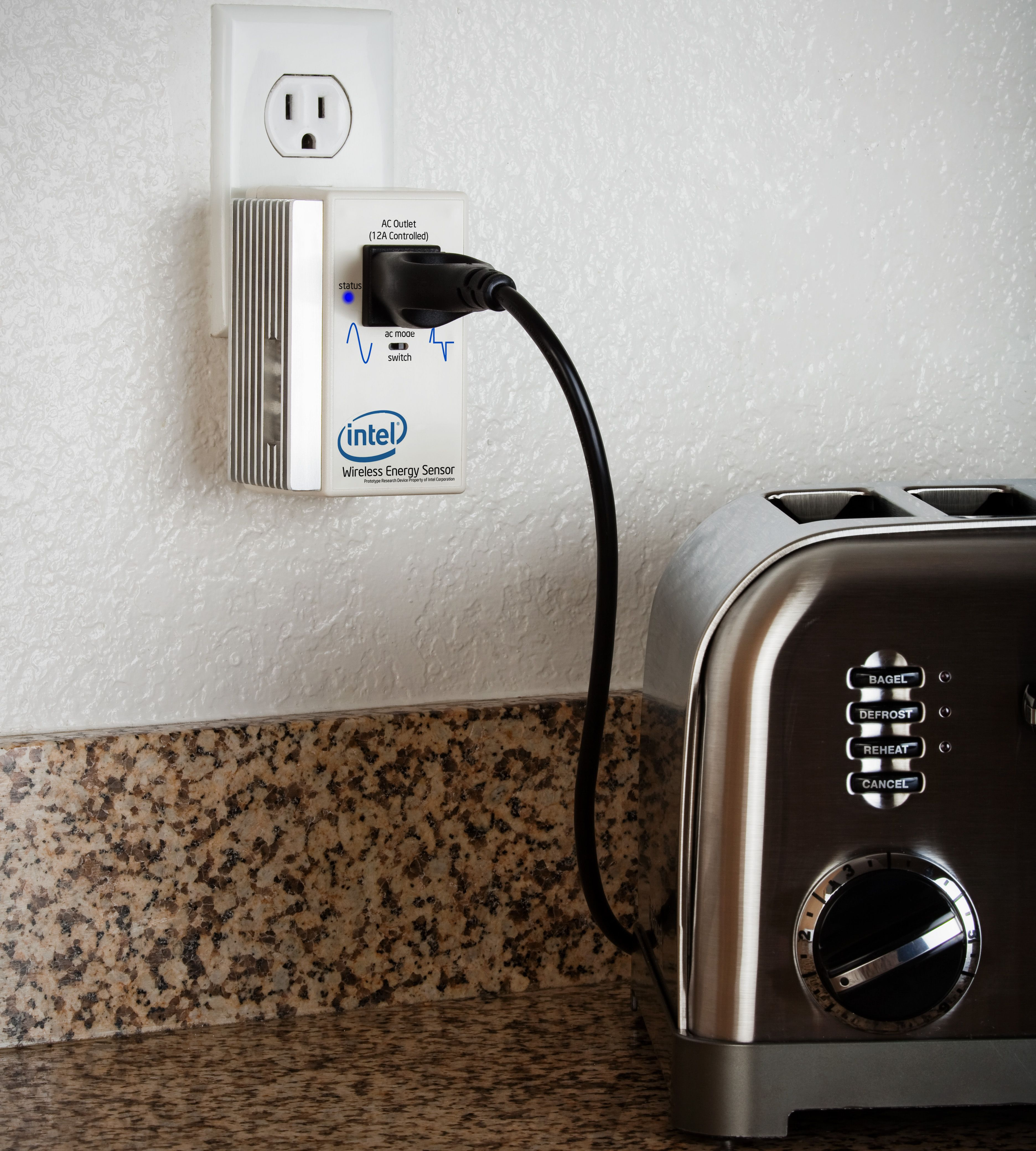 Research technology from Intel Labs is being used in some Pecan Project homes to analyze the electricity used by lights and appliances throughout the house. "In our research trials at Pecan Street, we hardwired the circuit so we get one second or minute interval reading of what each circuit is using," said Brewster McCracken, president and CEO of Pecan Street Inc. See more: Could Big Data Lower Your Power Bill? Pecan Street Project testing how smart city technologies can help curb consumer energy use. Just as consumers are turning to mobile apps to track vital signs and manage their personal health, researchers believe that data collection technologies in homes could help people better manage their monthly utility bills. A glimpse of tomorrow's smart homes can be seen today in Austin, Texas. There, several hundred homes are providing real-time data about gas, water, electricity and solar power use. The homes, a mixture of "green" and conventional housing, are part of an ongoing smart grid research project called Pecan Street. The research consortium is a collaboration among the University of Texas, the Environmental Defense Fund, Austin Energy and a number of other companies, including Intel, Oracle and Sony.